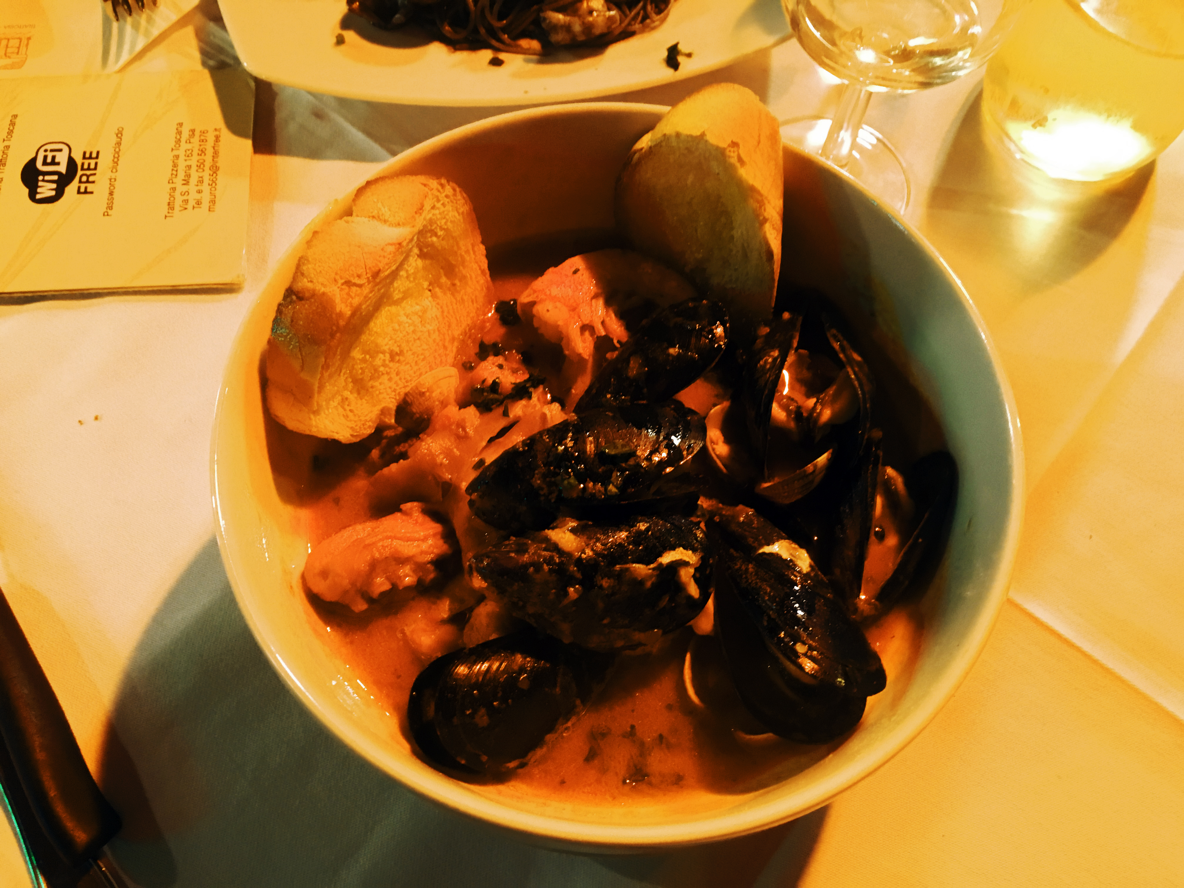 Cacciucco alla livornese (fish stew as made in Livorno)